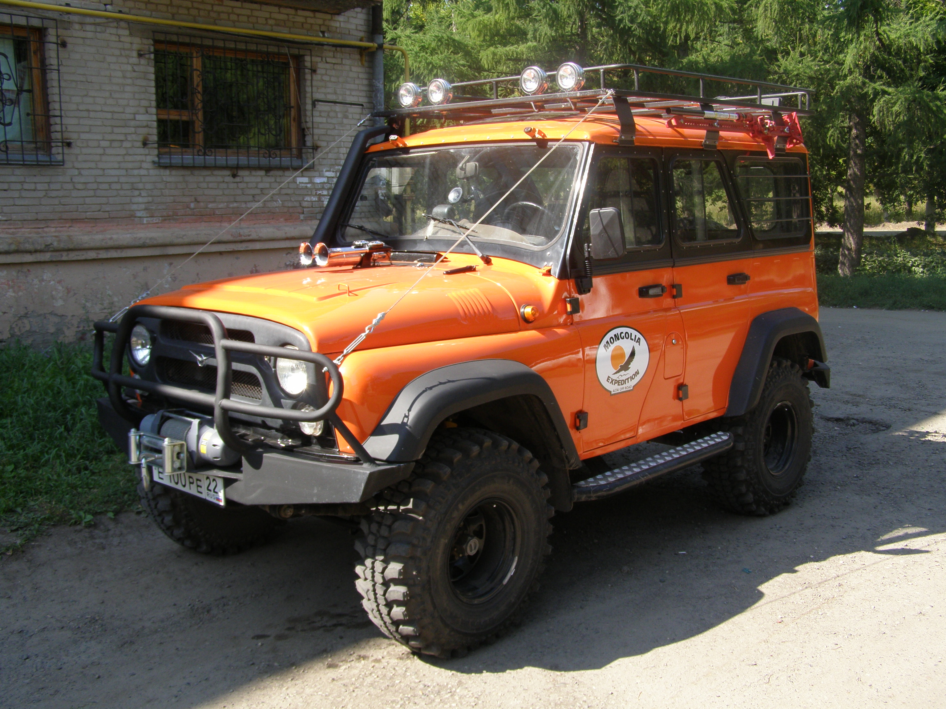 UAZ Hunter used during an expedition to Mongolia.